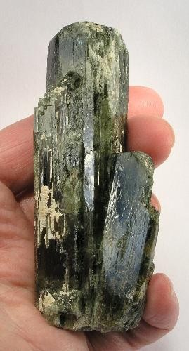 Diopside Locality: Slyudyanka (Sludyanka), Lake Baikal area, Irkutskaya Oblast', Prebaikalia (Pribaikal'e), Eastern-Siberian Region, Russia (Locality at ) Size: 9.7 x 4 x 2.3 cm. A fine Russian Diopside specimen! The larger crystal is over 9 cm, and has a nicely-shaped velvety termination. The secondary crystal is not fully terminated. Both have a superb mirror-like luster and are partially gemmy/translucent, very 3-dimensional, and a deep green color. Ex. Charlie Key.